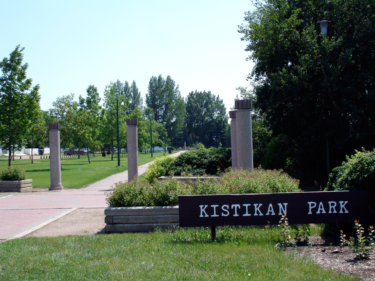 Kistikan Park, a public park in the Eastview neighbourhood of Saskatoon, Saskatchewan, Canada.